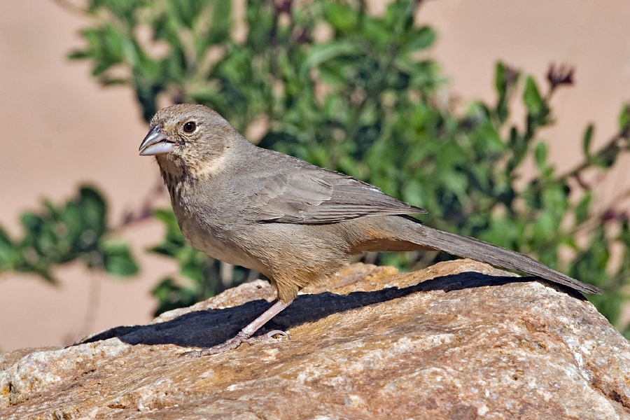 Canyon Towhee, Pipilo fuscus, The Pond At Elephant Head, Amado, Arizona